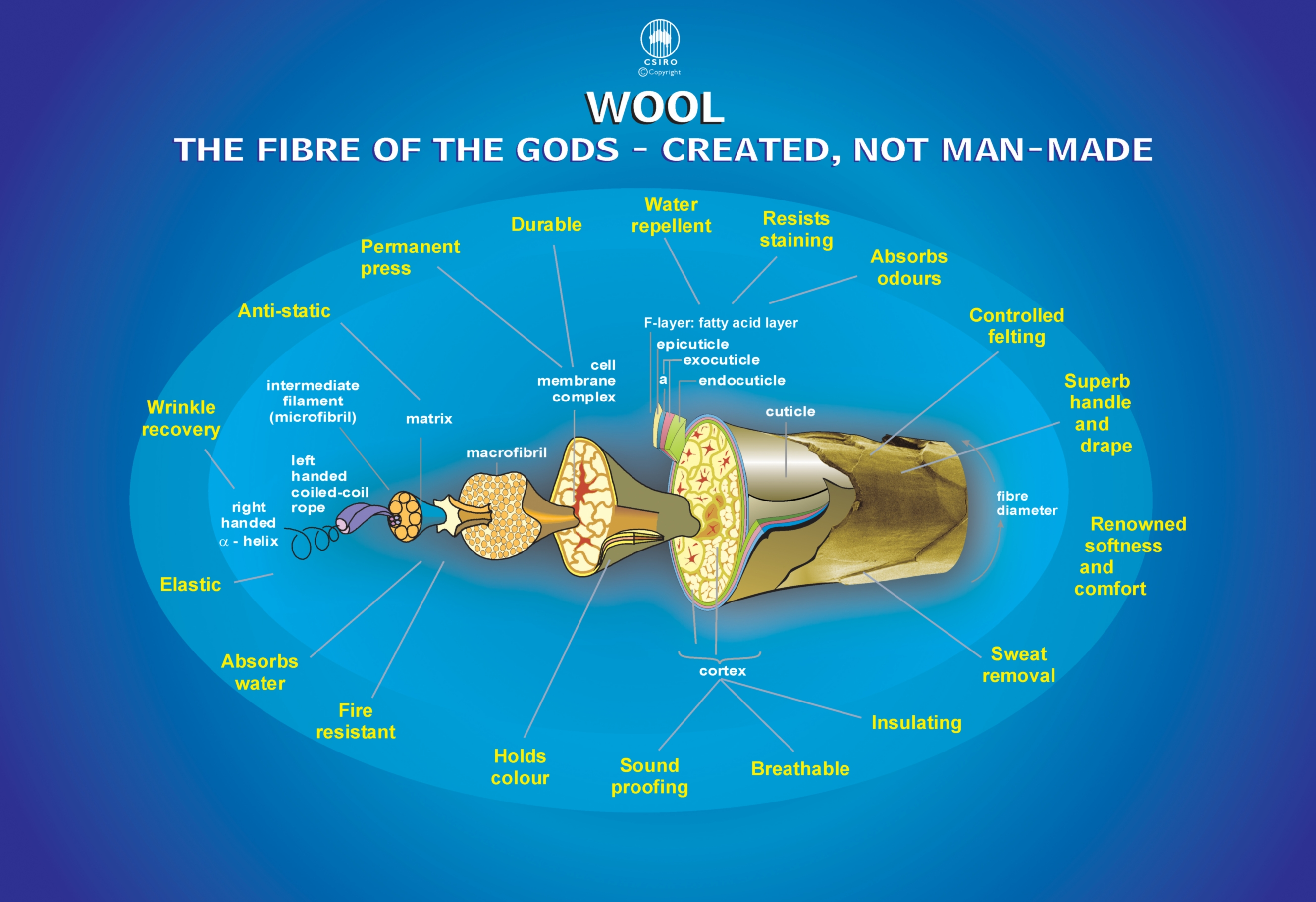 Wool – Fibre of the gods, created not man made. This image illustrates the many positive attributes that make wool unique as a fibre.